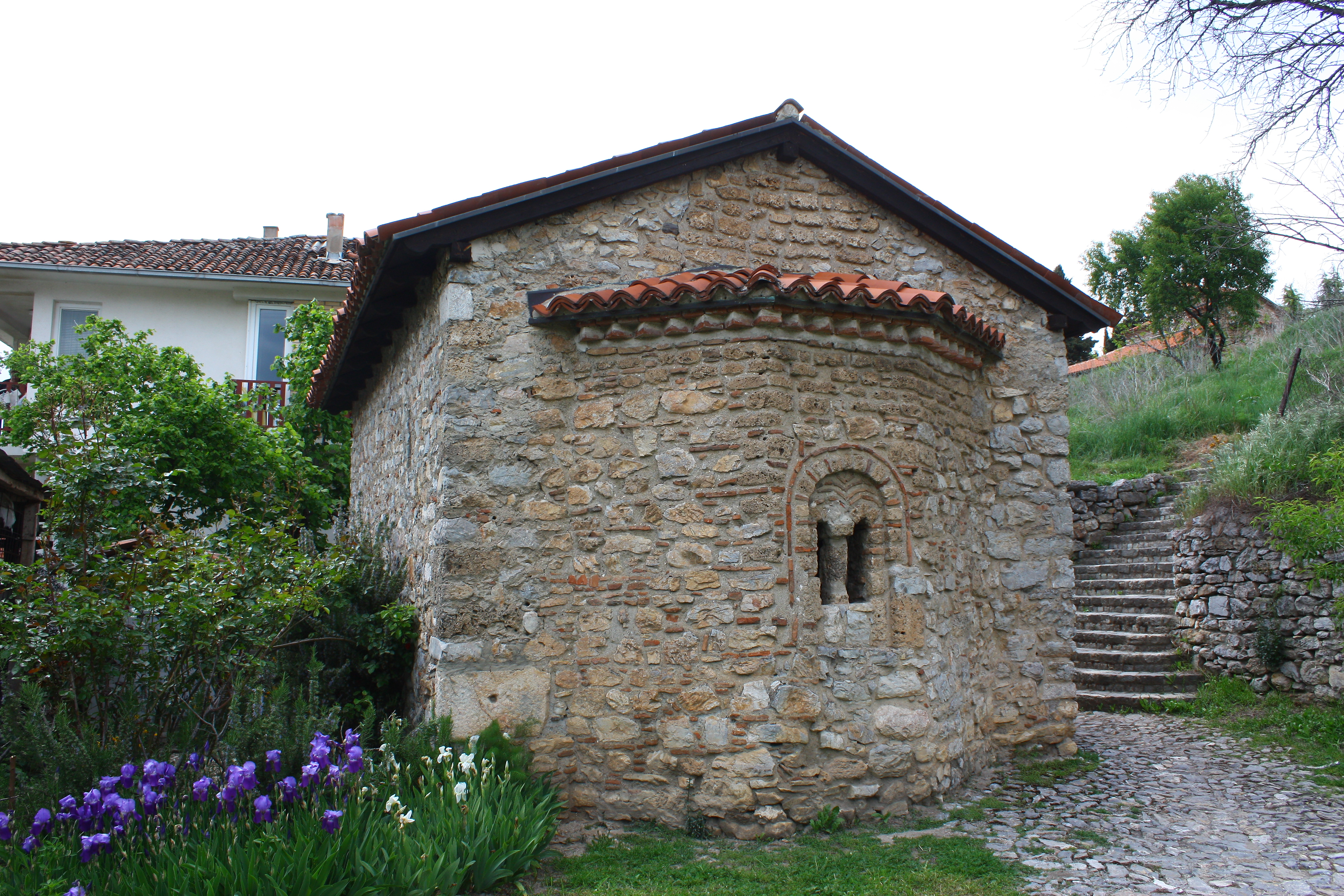 Cosmas and Damian the Lesser Church in Ohrid, Macedonia